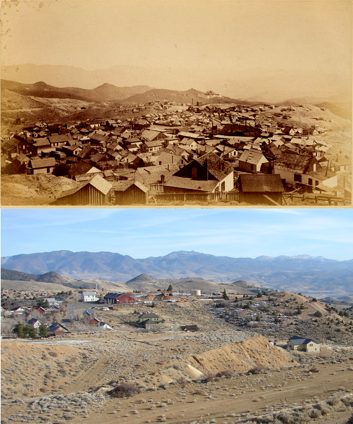 Gold Hill is a mile west of Virginia City and at one time was bigger being also situated on the "Big Bonanza" silver lode. The area pictured here is the "Divide" between the two cities. The photo was taken from the "flume" which was a wood ditch that carried water over two mountain ranges and a valley in what was one of the greatest engineering feats of the 1800's. The area in the foreground is an open pit mine from the 1900s.